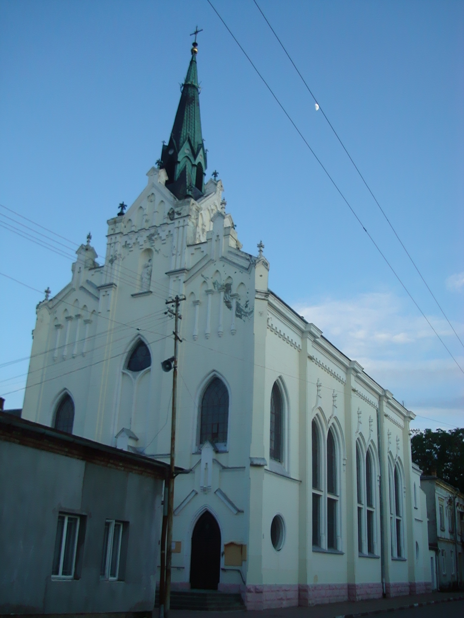 St Archistratig Mihail's Church in Stryi